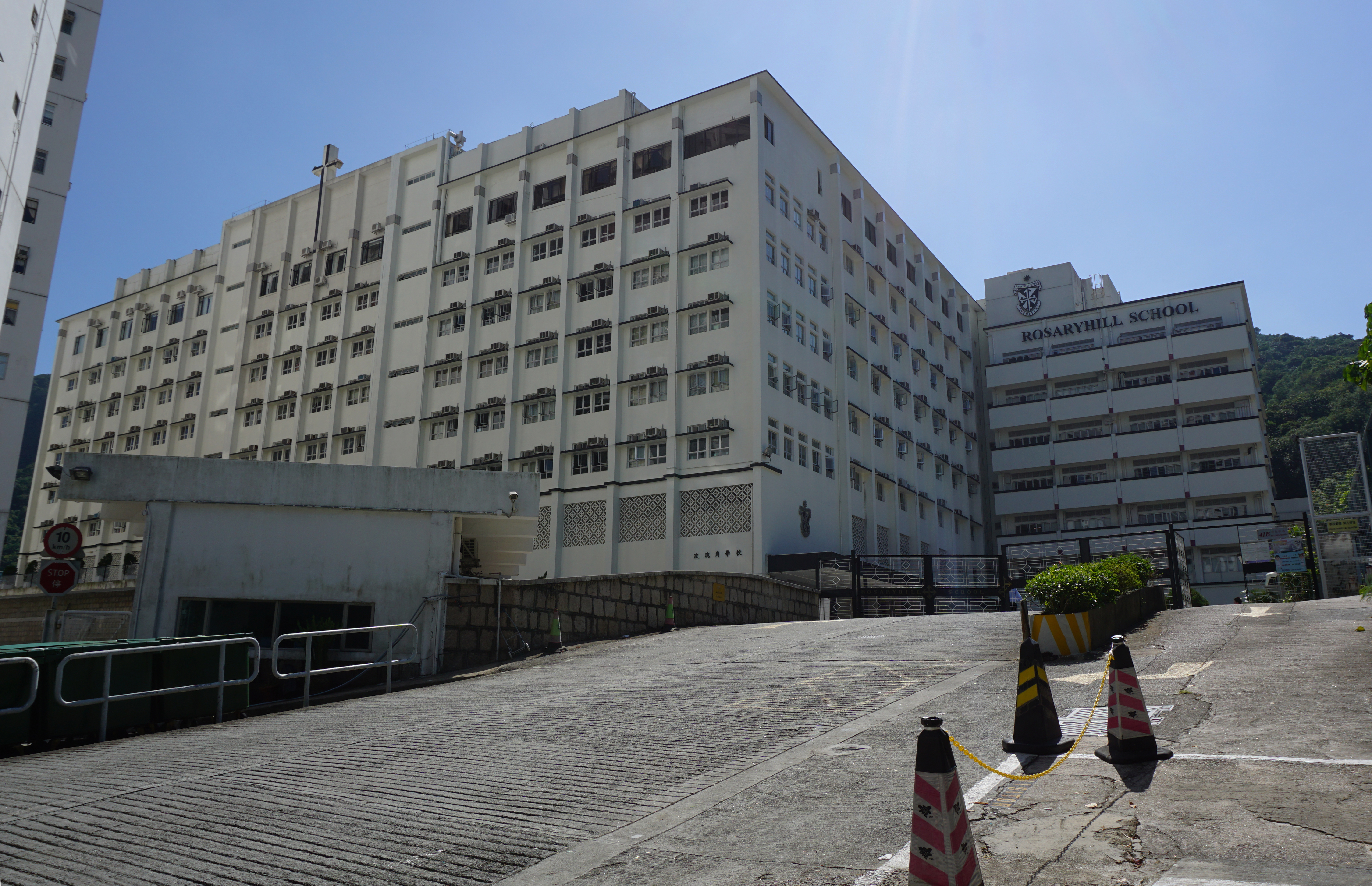 Rosaryhill School in Stubbs Road, Hong Kong.